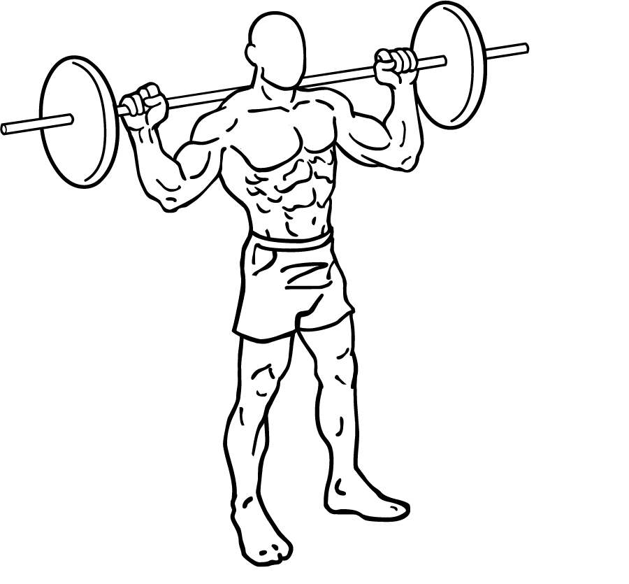 an exercise of hip